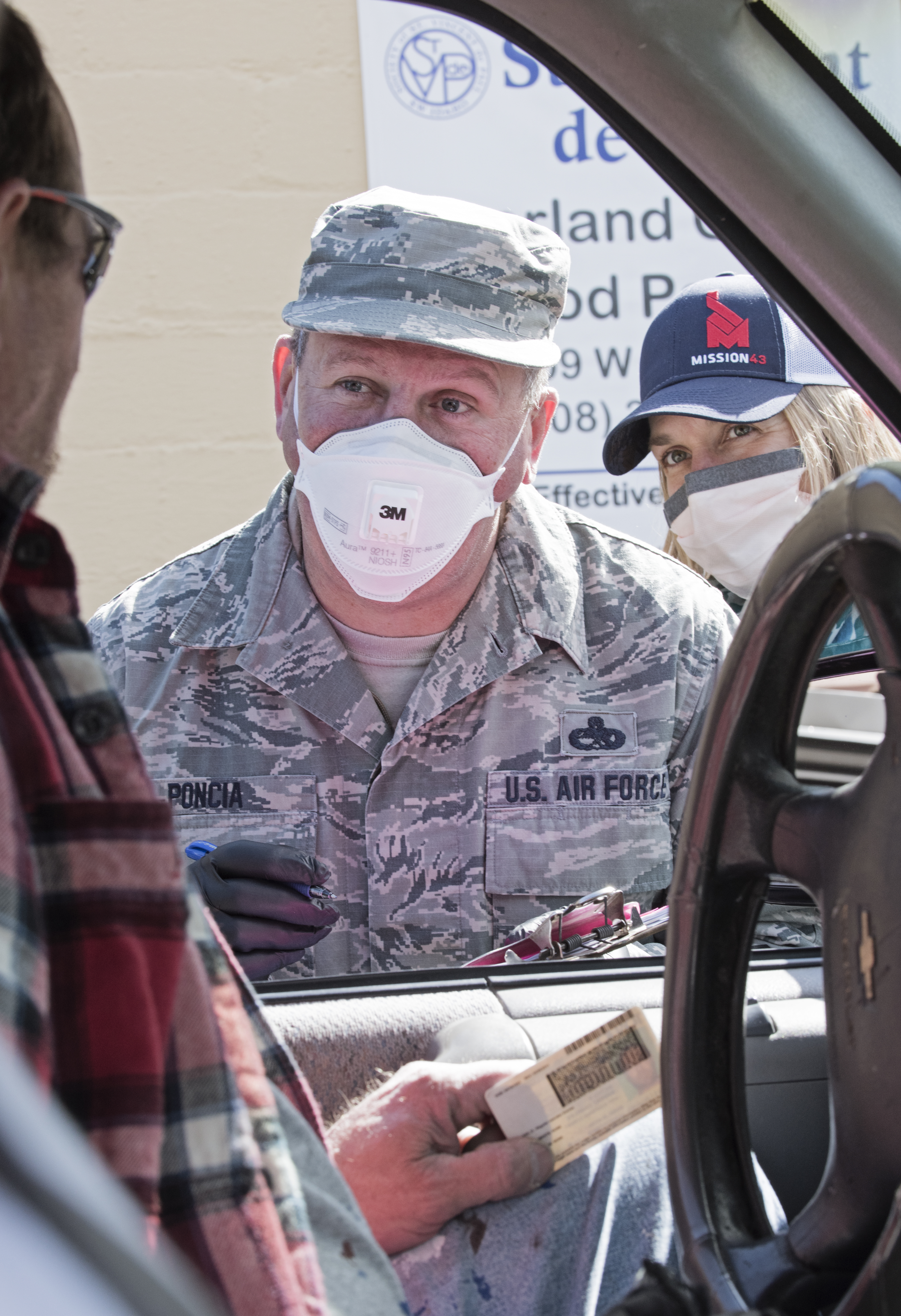 Idaho National Guard Airmen are helping at the St. Vincent de Paul Food Pantry in a time of need. Food is donated to pantries like St. Vincent de Paul from the food bank and several local companies as part of the Feed America program. Master Sgt. Gary Poncia from the 124th Fighter Wing helped by unloading food from trucks, sorting the food into carts and helping load the donated food into people's cars that came by for their grocery needs on March 3, 2020. The Idaho National Guard is helping at the pick-up station at St. Vincent de Paul because the need for more manpower increased as more people were coming for food. The call for the Idaho National Guard came through the Idaho Office of Emergency Management from the Idaho Foodbank to help with a shortage of support during the hardship of COVID-19. Currently they are handing out food to anyone that shows up during the pantry's pick-up hours. (U.S. Air National Guard photo by Master Sgt. Becky Vanshur)